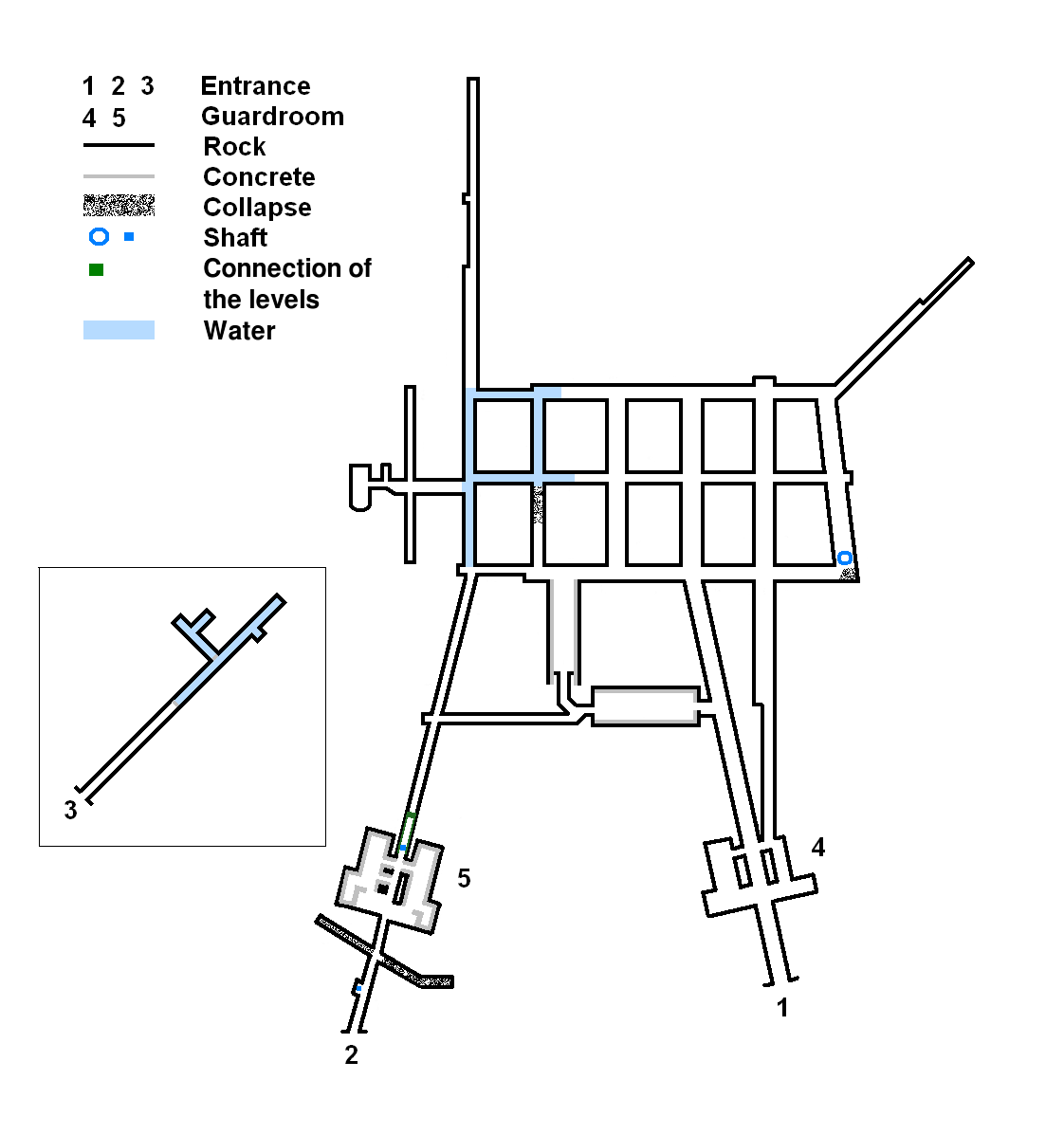 Diagram of the underground complex Osówka, a part of the project Riese.